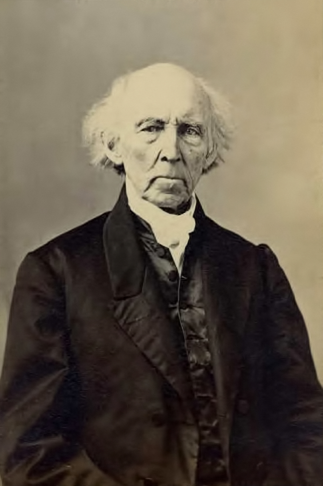 Chester Dewey, by Powelson, Photographer, 58 State St., Rochester, N.Y.